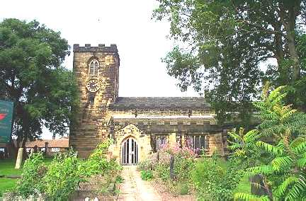 All Saints parish church, North Featherstone, West Yorkshire, seen from the south